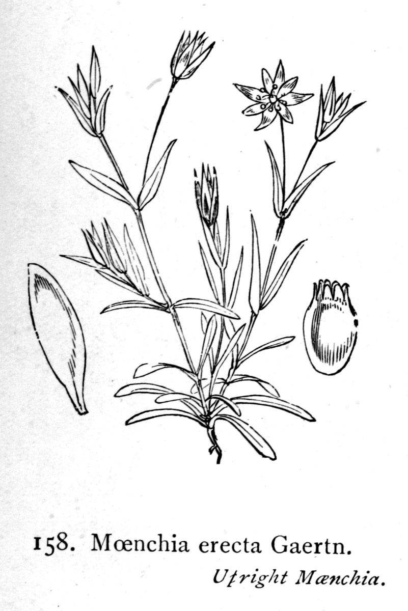 Illutration of Moenchia erecta